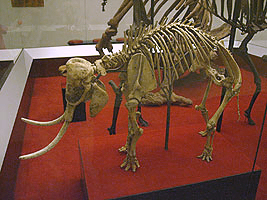 A skeleton of the Cretan Dwarf Elephant (Mammuthus creticus). Photographed in one of the expositions of Emmen Zoo, Emmen, the Netherlands.